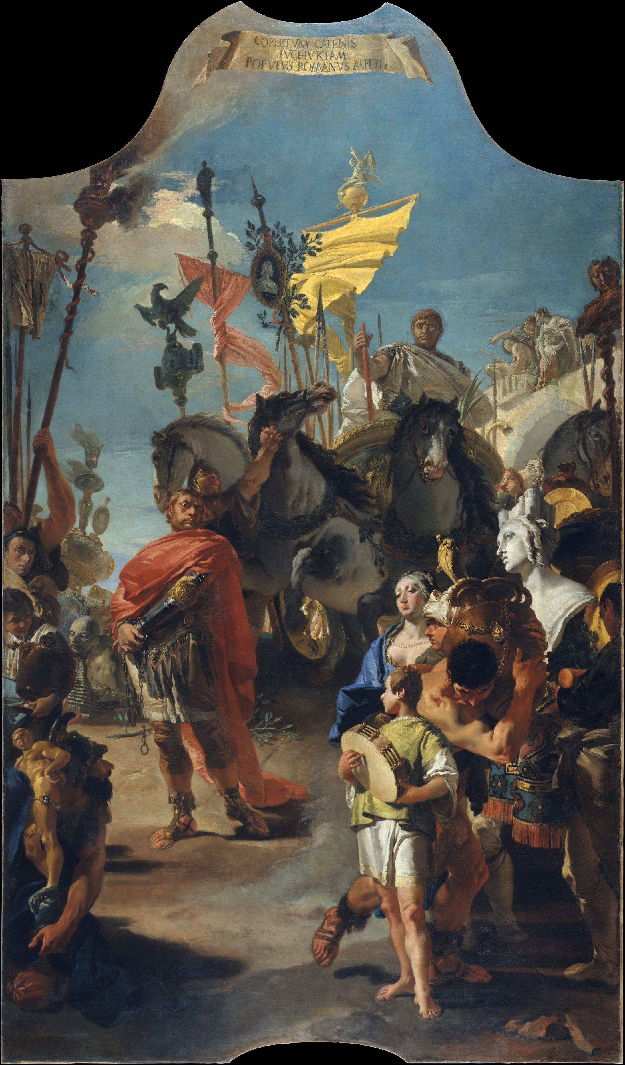 The inscription in Latin reads “The Roman people behold Jugurtha laden with chains”.